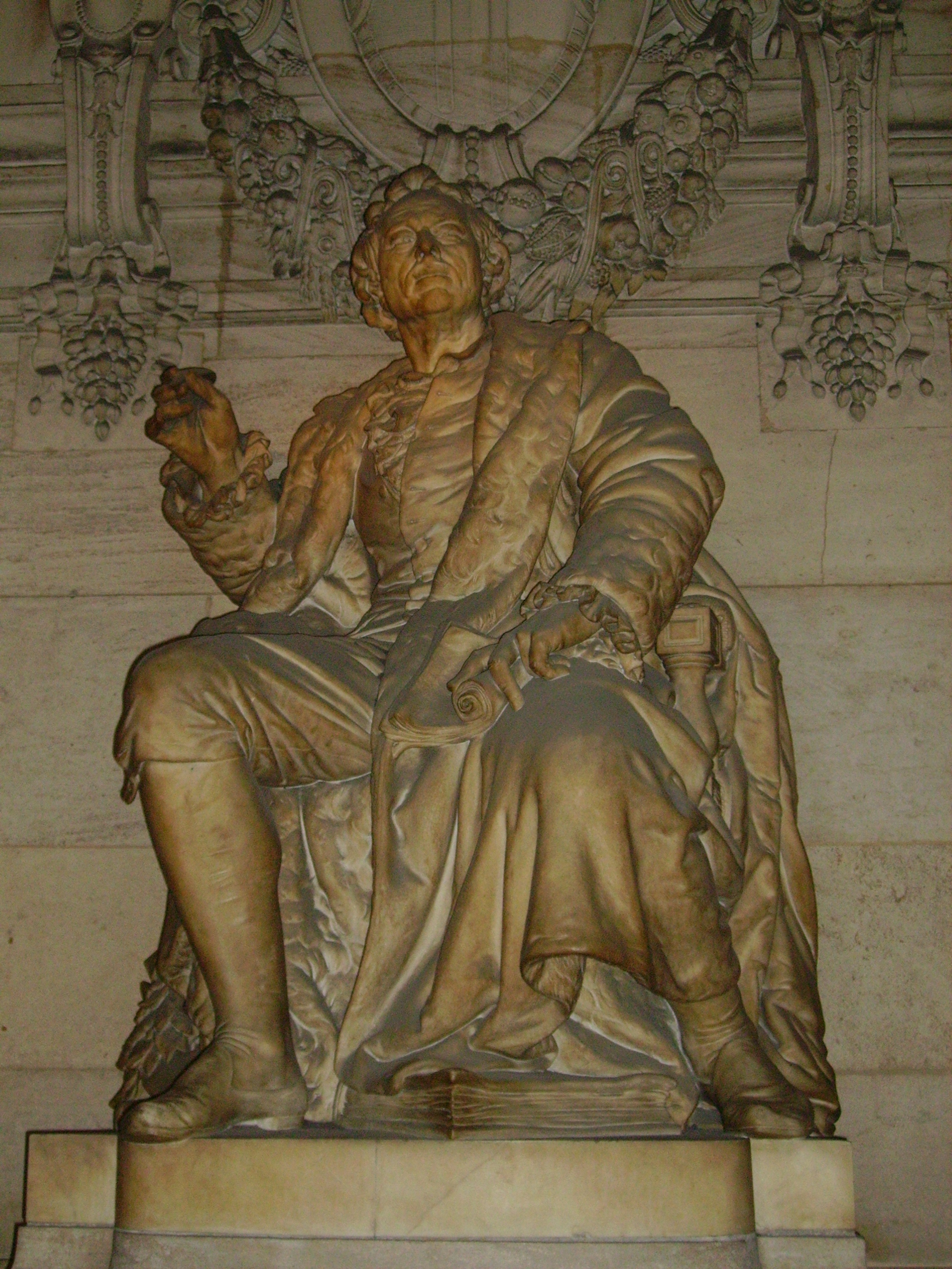 Statue of Christoph Willibald Gluck at Opéra Garnier.